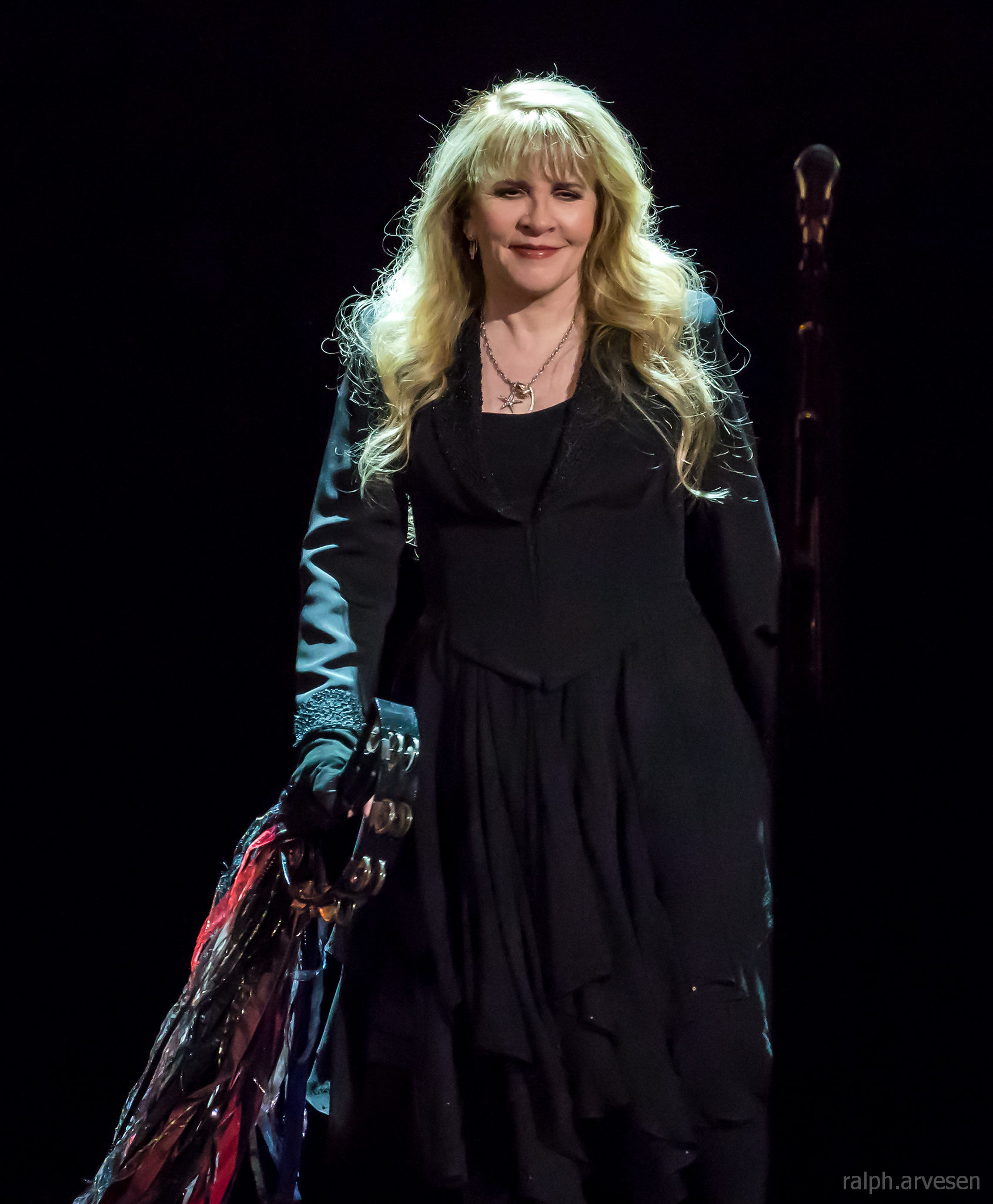 Stevie Nicks performing at the Frank Erwin Center in Austin, Texas on her 24 Karat Gold Tour.